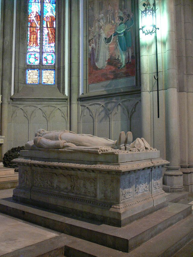 His body was temporarily housed in the Cathedral of Rio de Janeiro until construction on the Cathedral of Petrópolis was complete on 5 December 1939.